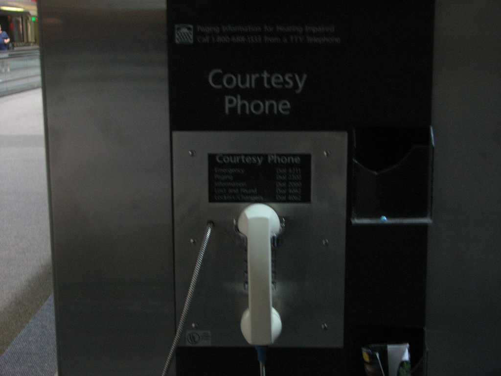 White courtesy phone